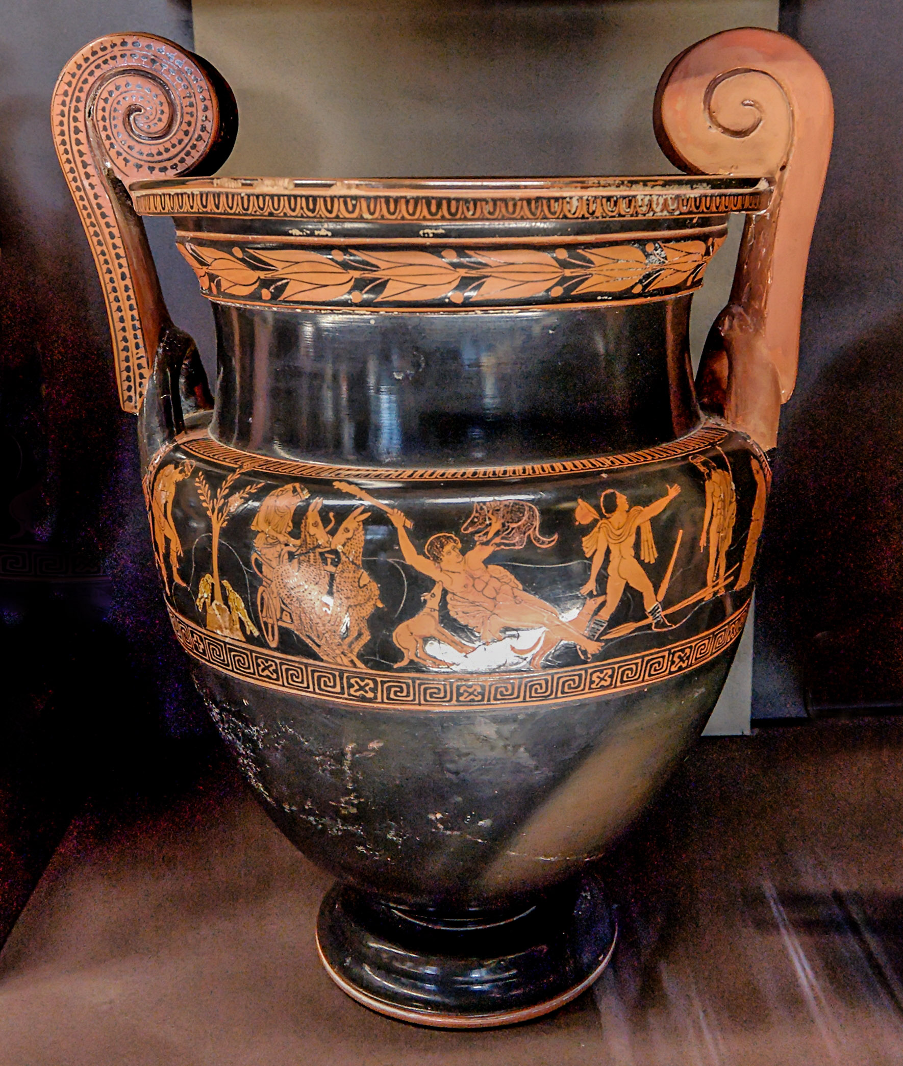 Actaeon's death. Artemis drives a chariot drawn by a team of deer. To the right a man reports Actaeon's death to his parents Aristaeus and Autonoe. The scene is probably based on Aeschylus' lost play The Toxitides, which dealt with the story of Actaeon. Side A from an Attic red-figure volute crater, ca. 450–440 BC.